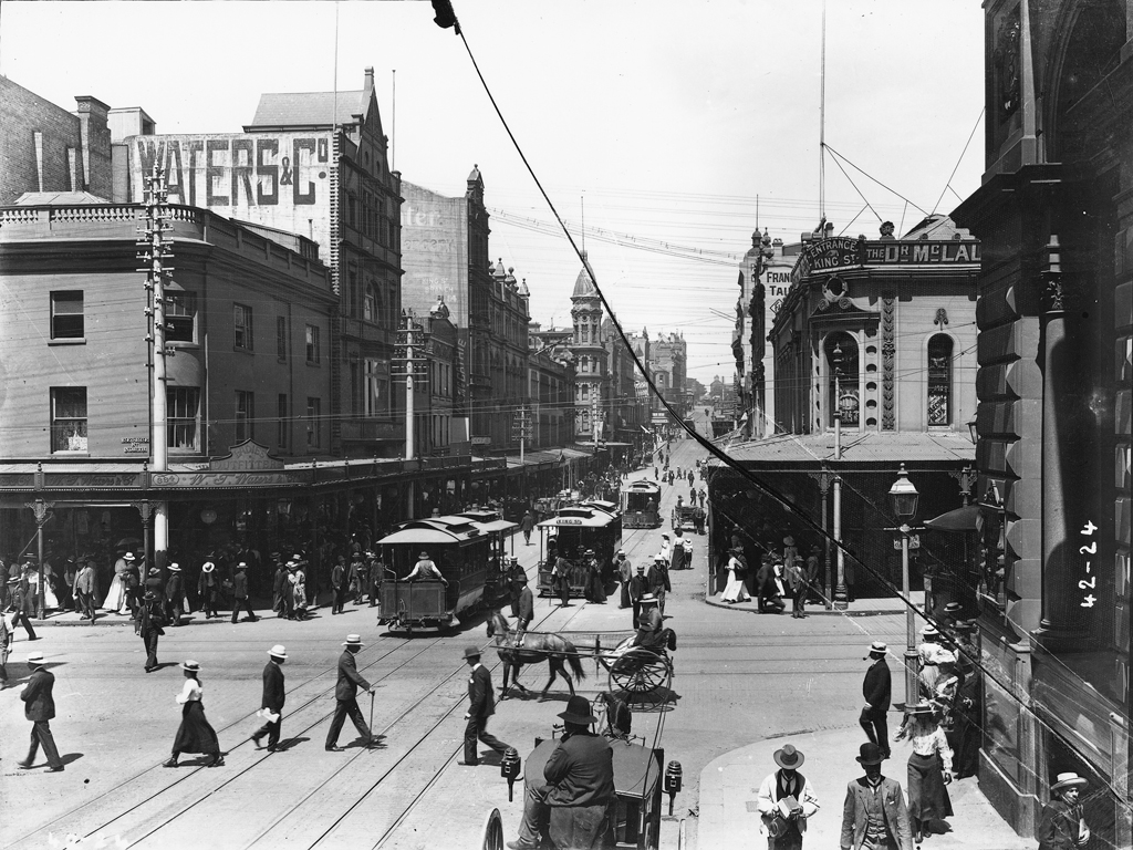 Format: Glass plate negative. Repository: Tyrrell Photographic Collection, Powerhouse Museum Part Of: Powerhouse Museum Collection General information about the Powerhouse Museum Collection is available at Persistent URL: [1] Acquisition credit line: Gift of Australian Consolidated Press under the Taxation Incentives for the Arts Scheme, 1985